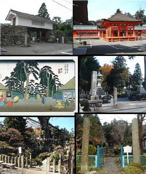 Tarui montage